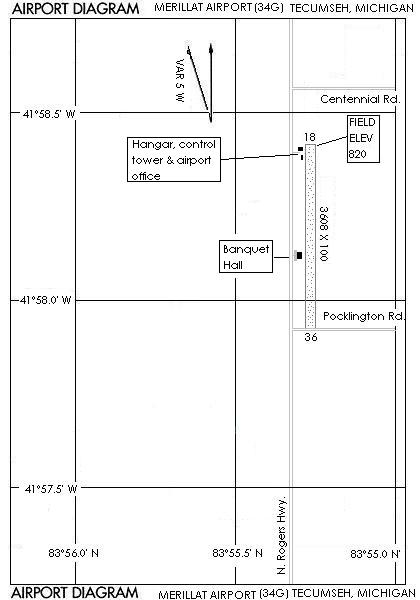 Merillat Airport diagram, Tecumseh Michigan. NOTE: This diagram was created using FAA data but it is not an FAA Airport Diagram. It is a facsimile of an FAA airport diagram.